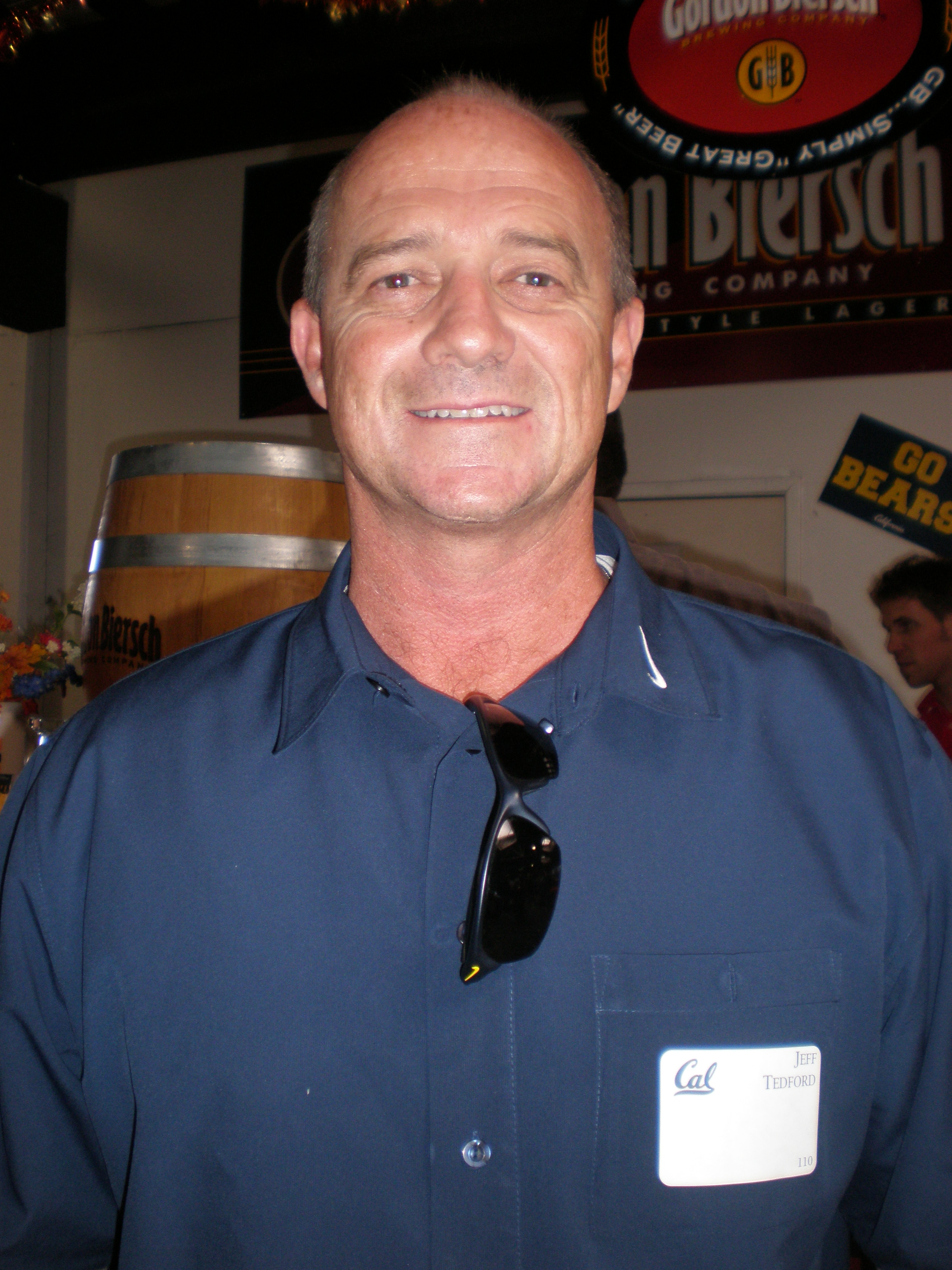 California Golden Bears football head coach Jeff Tedford at a 2009 Coaches Tour appearance in San Jose, California.